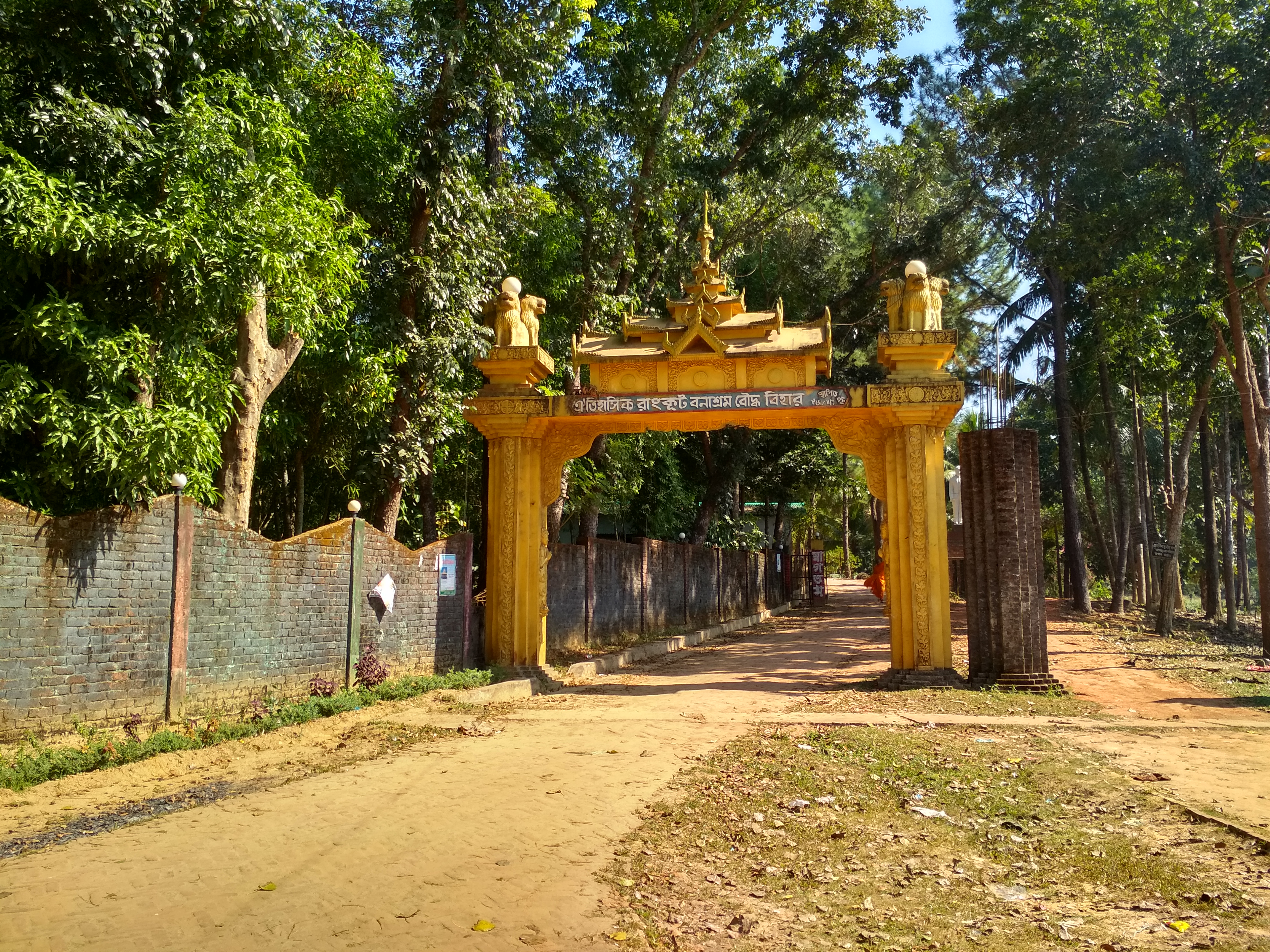 Entry gate of Rangkut Banasram Pilgrimage Monastery